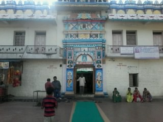 A outside view of famous Narsimha Temple in Pokharni village near Parbhani city of Maharashtra, India